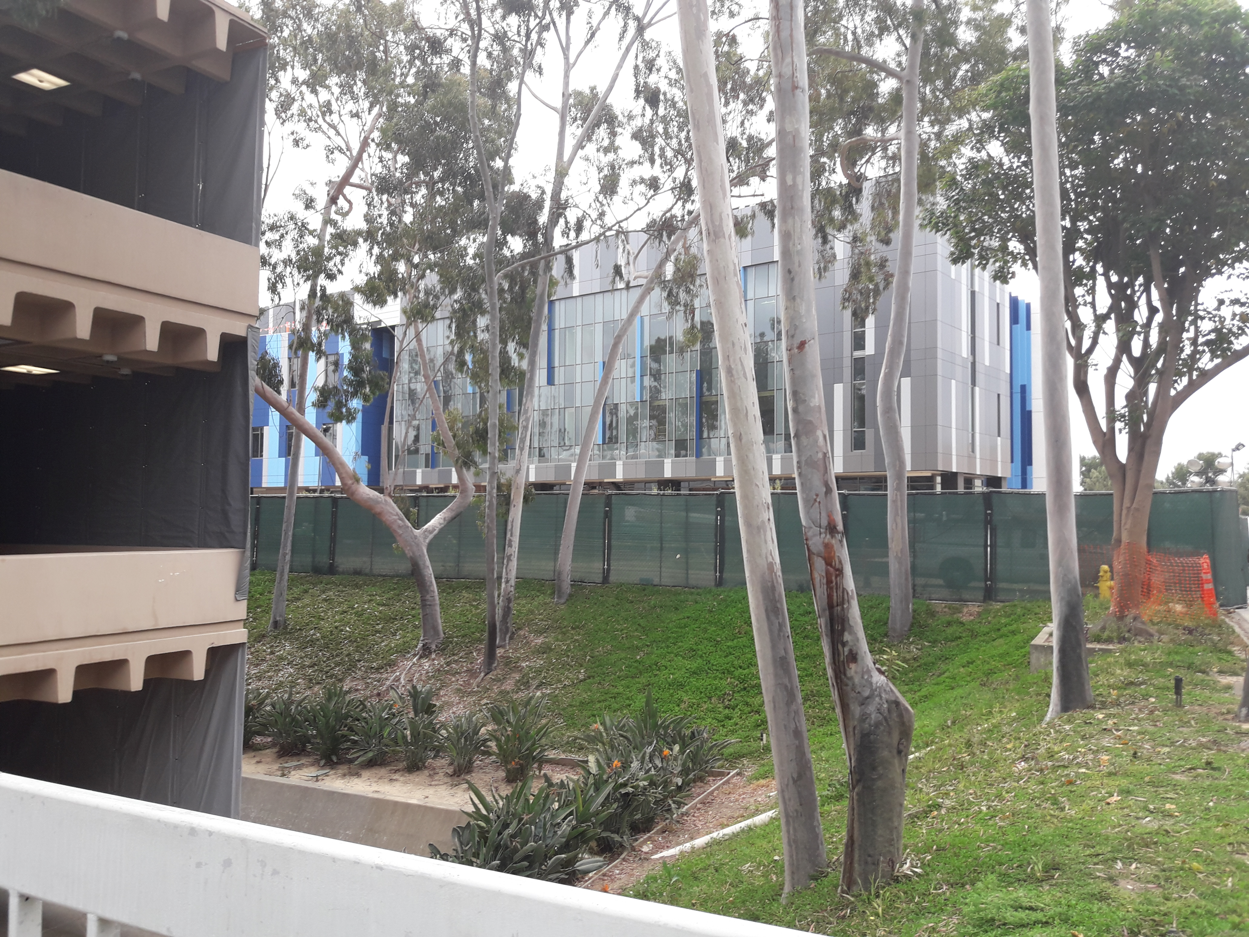 Photos taken from afar of the library.